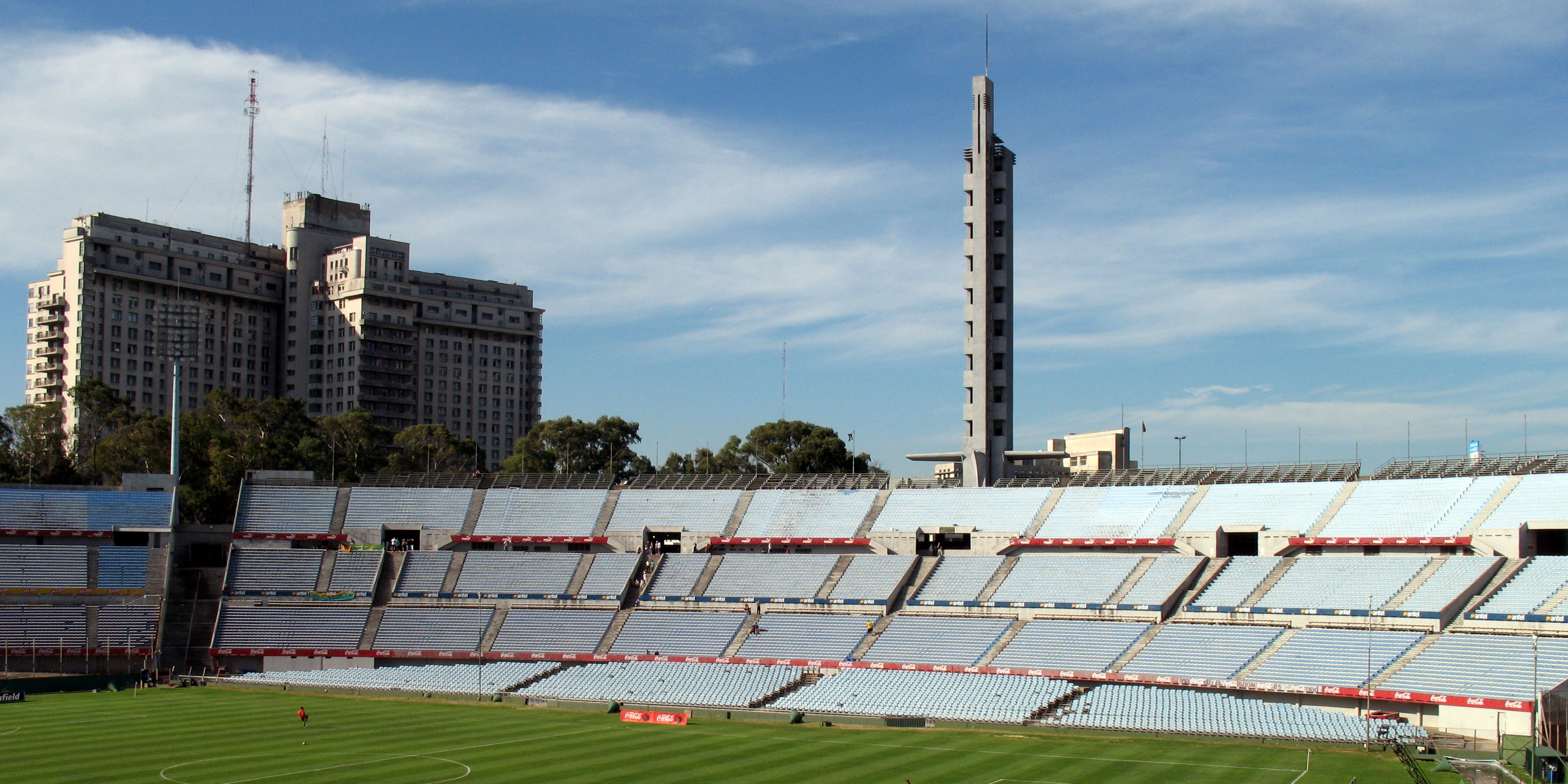 Estadio Centenario (Montevideo) Tribuna Olimpica with Torre de los Homenajes